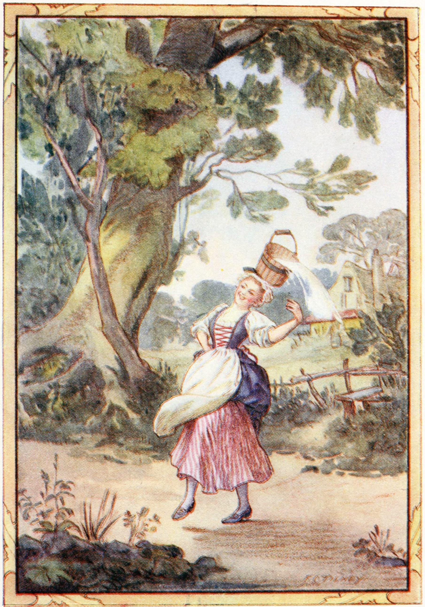 Illustration to a translation of a fable.